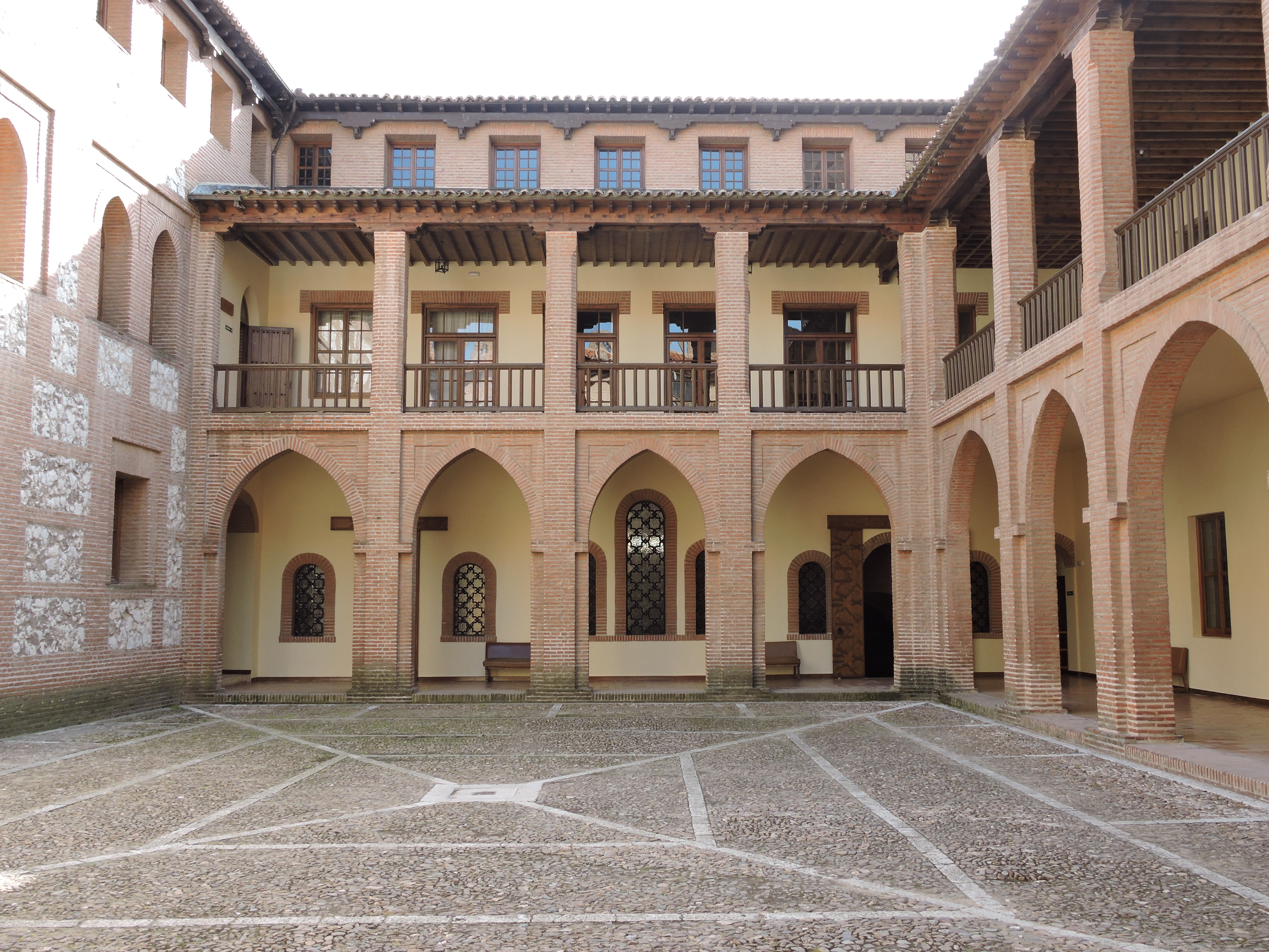 Castillo de la Mota - the inner ward